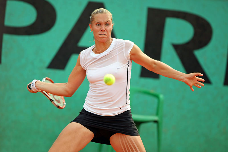 Russian tennis player Nina Bratchikova at the 2009 French Open qualifications in ladies' singles on Court 11 at Roland Garros Stadium, Paris, on 21 May 2009